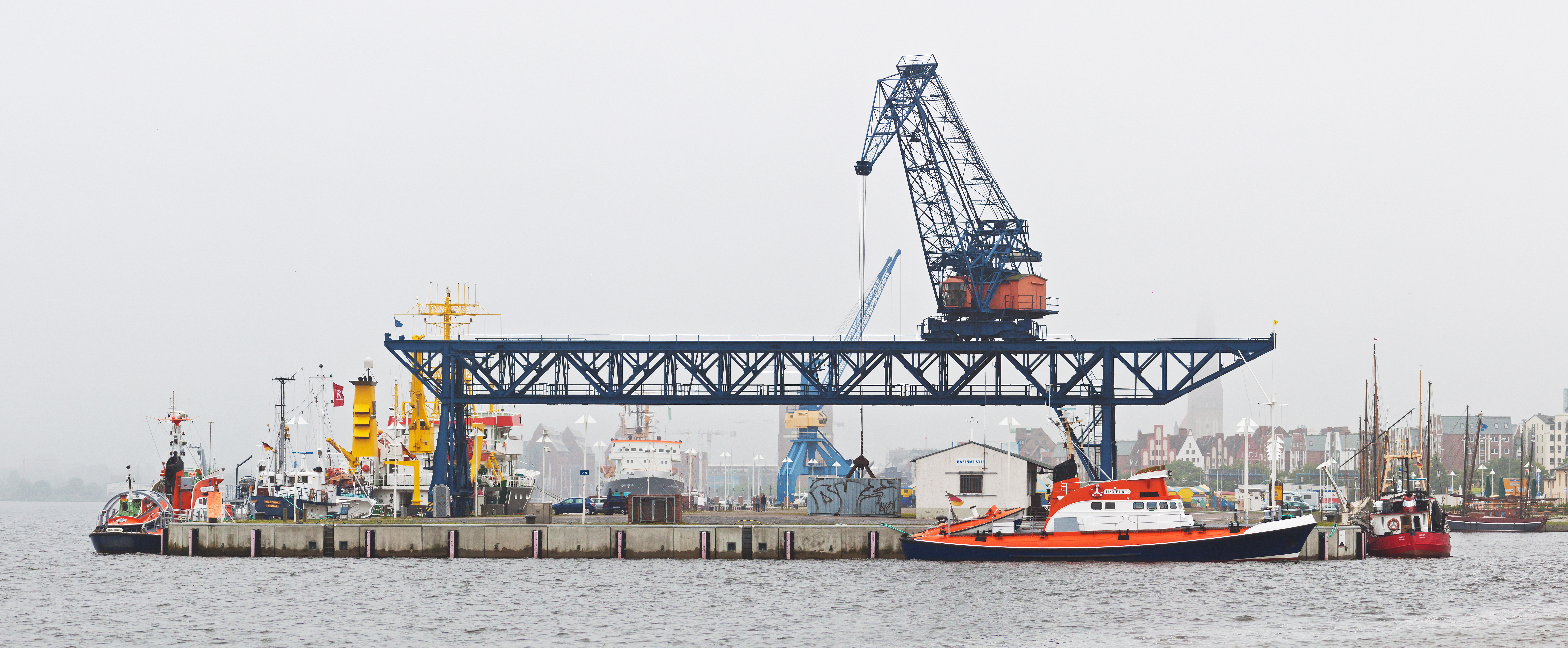 A panoramic view of the Stadthafen Rostock. This (literally translated) City port serves nowadays as base for recreational boating. The gantry crane marks the entrance of the museum port, reserved for boats that have a historic notability. The cutter "Gadus" is a vessel from the university of Rostock. You'll see two decommissioned rescue cruisers, too; the yellow stack is from the MS Deneb (IMO 9079470), a research vessel. The ship in the background is the decommissioned icebreaker Stephan Jantzen.